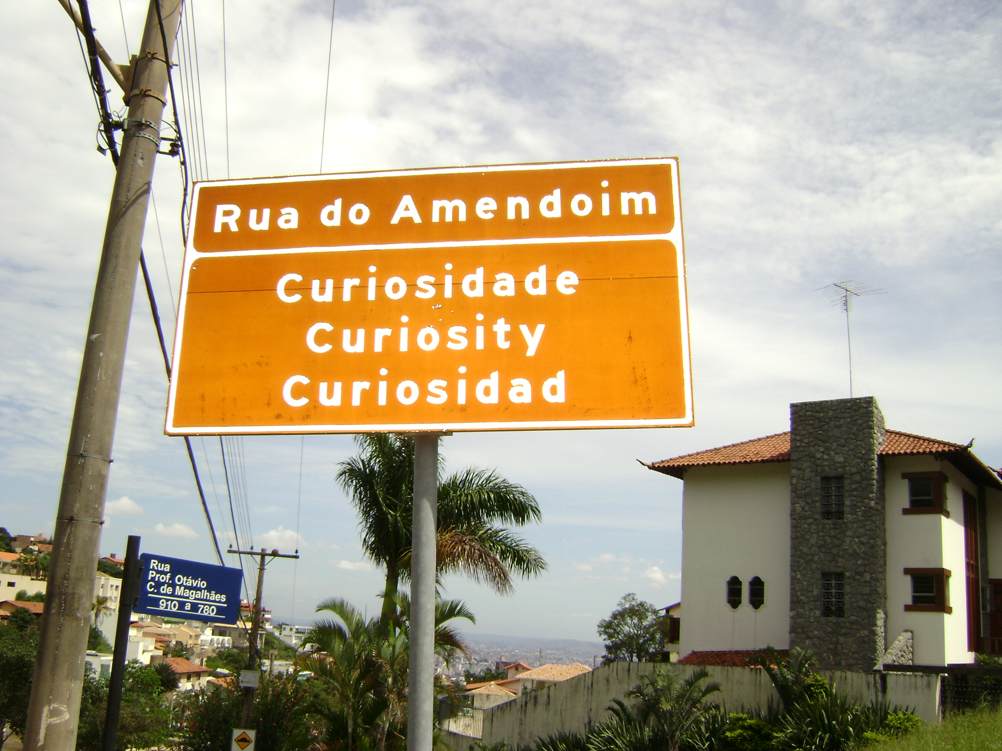 Placa da rua do Amendoim